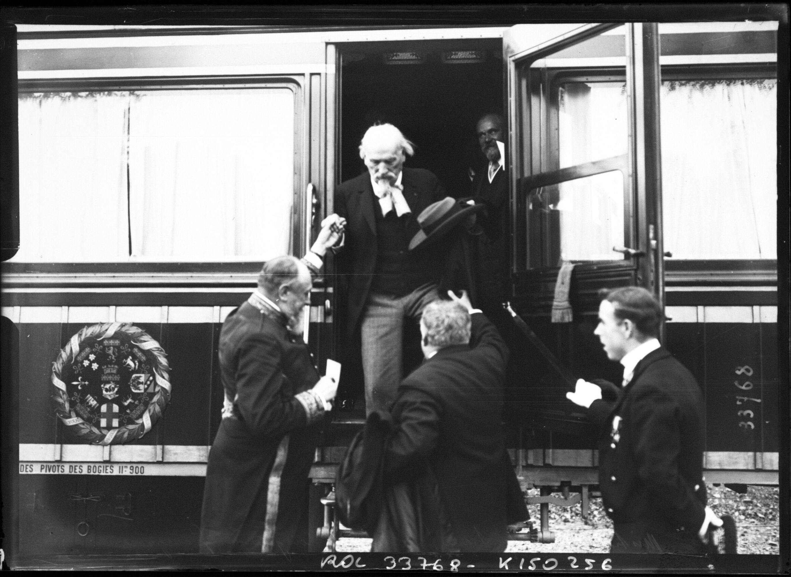 Frédéric Mistral meets the French president at Graveson station.